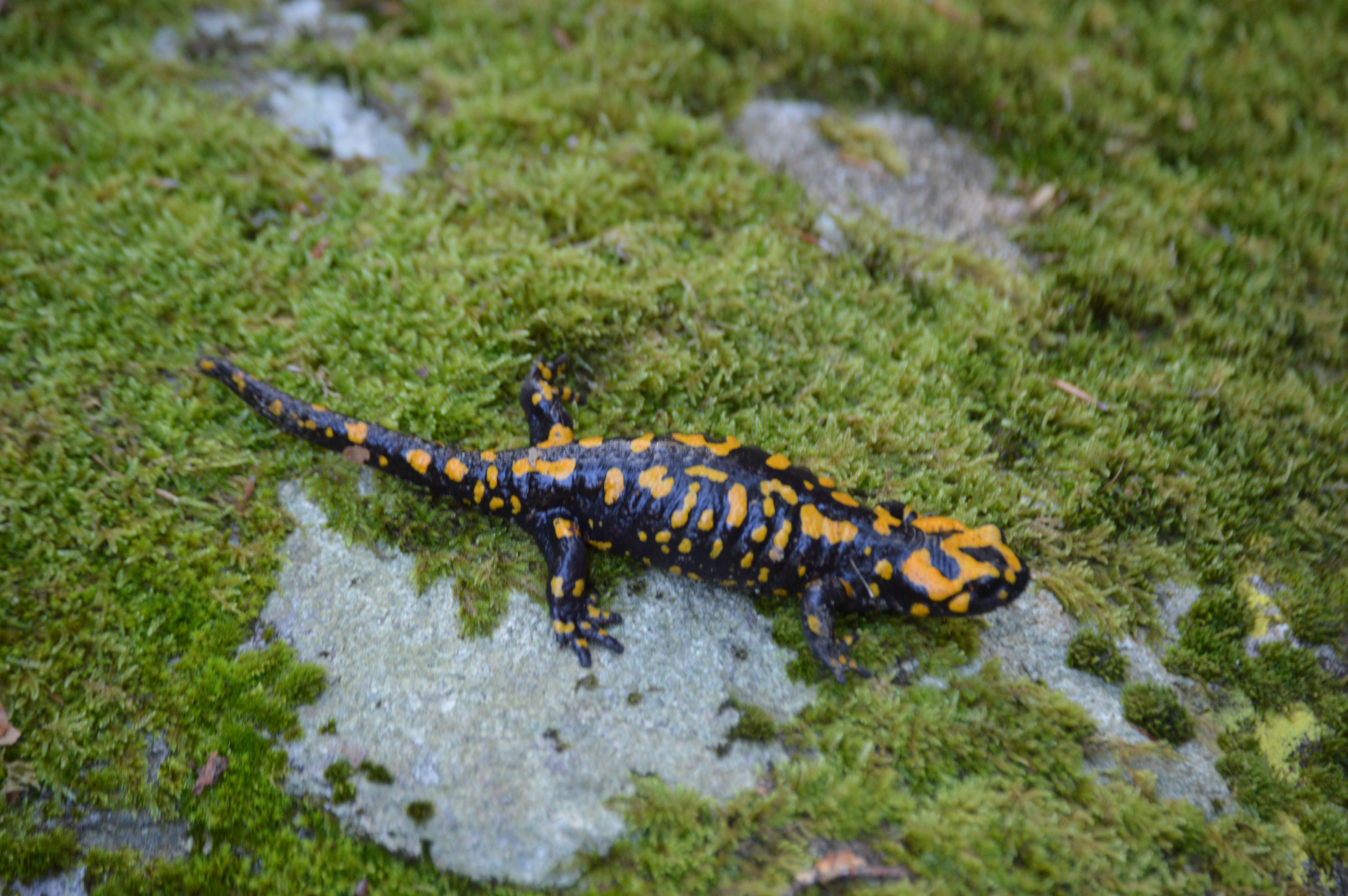 Beech forest, central Corsica, Sept 2014